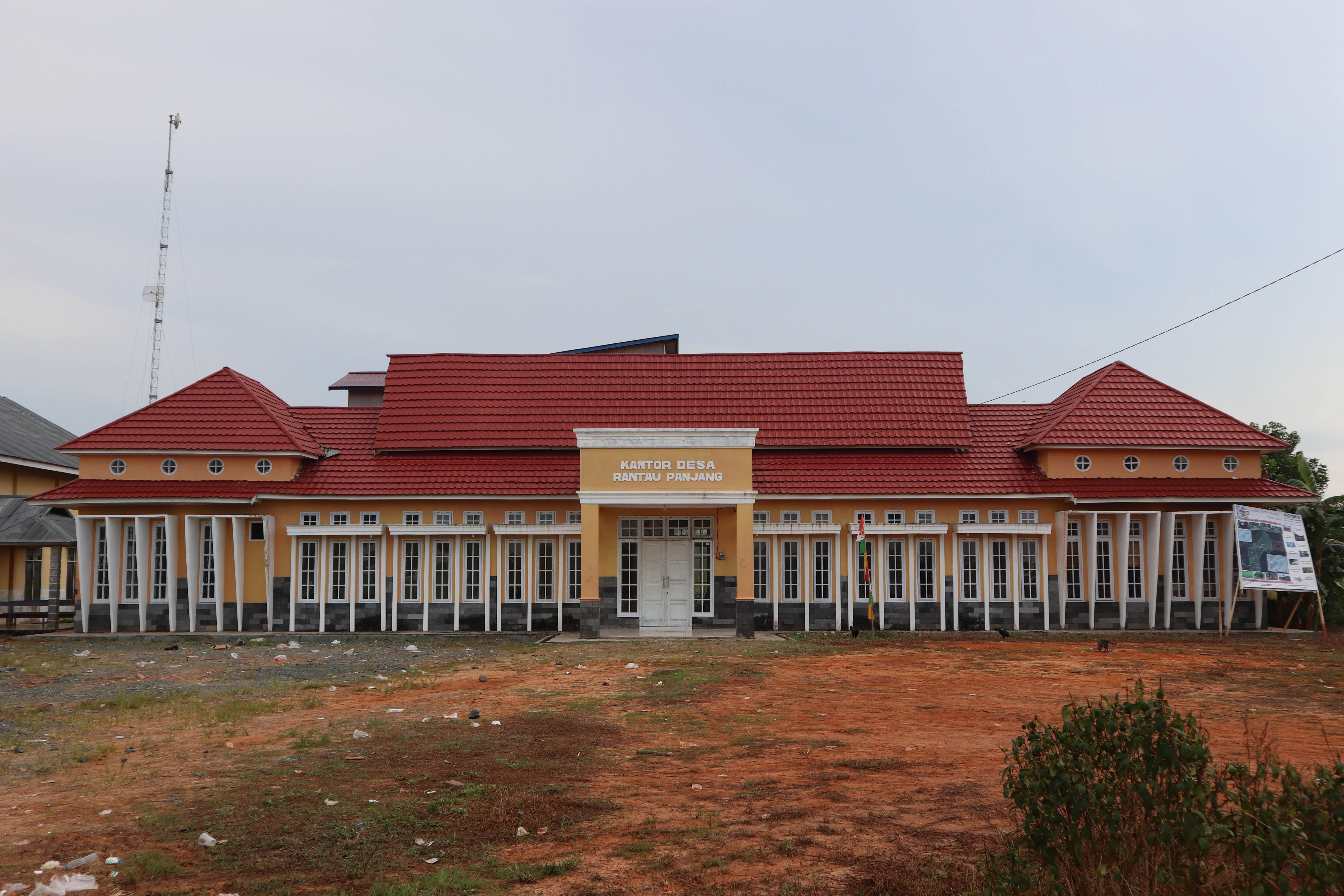 Rantau Panjang village office in Tanah Grogot subdistrict, Paser Regency, East Kalimantan, Indonesia.